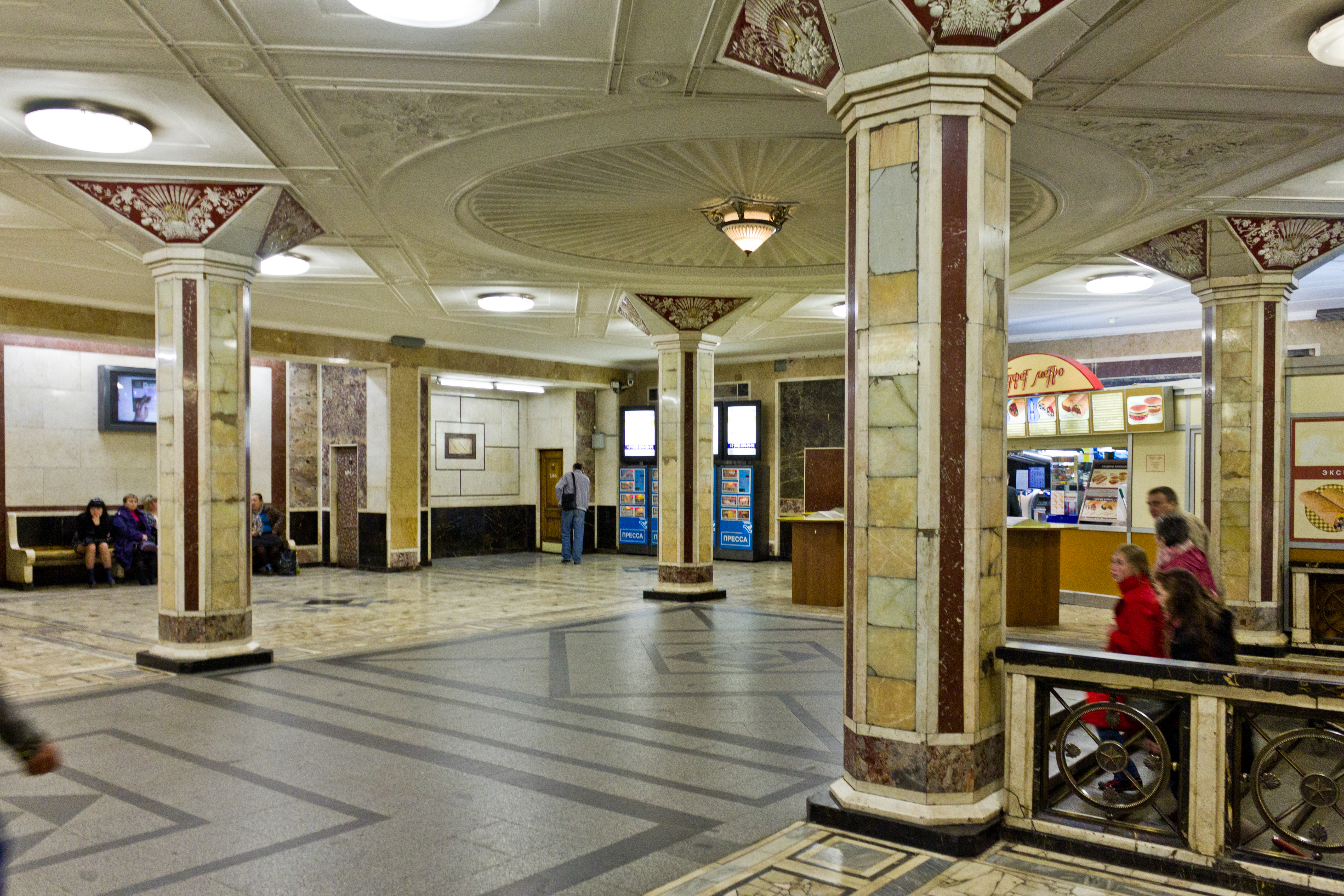 Kievskaya (Filyovskaya Line) Moscow Metro station.